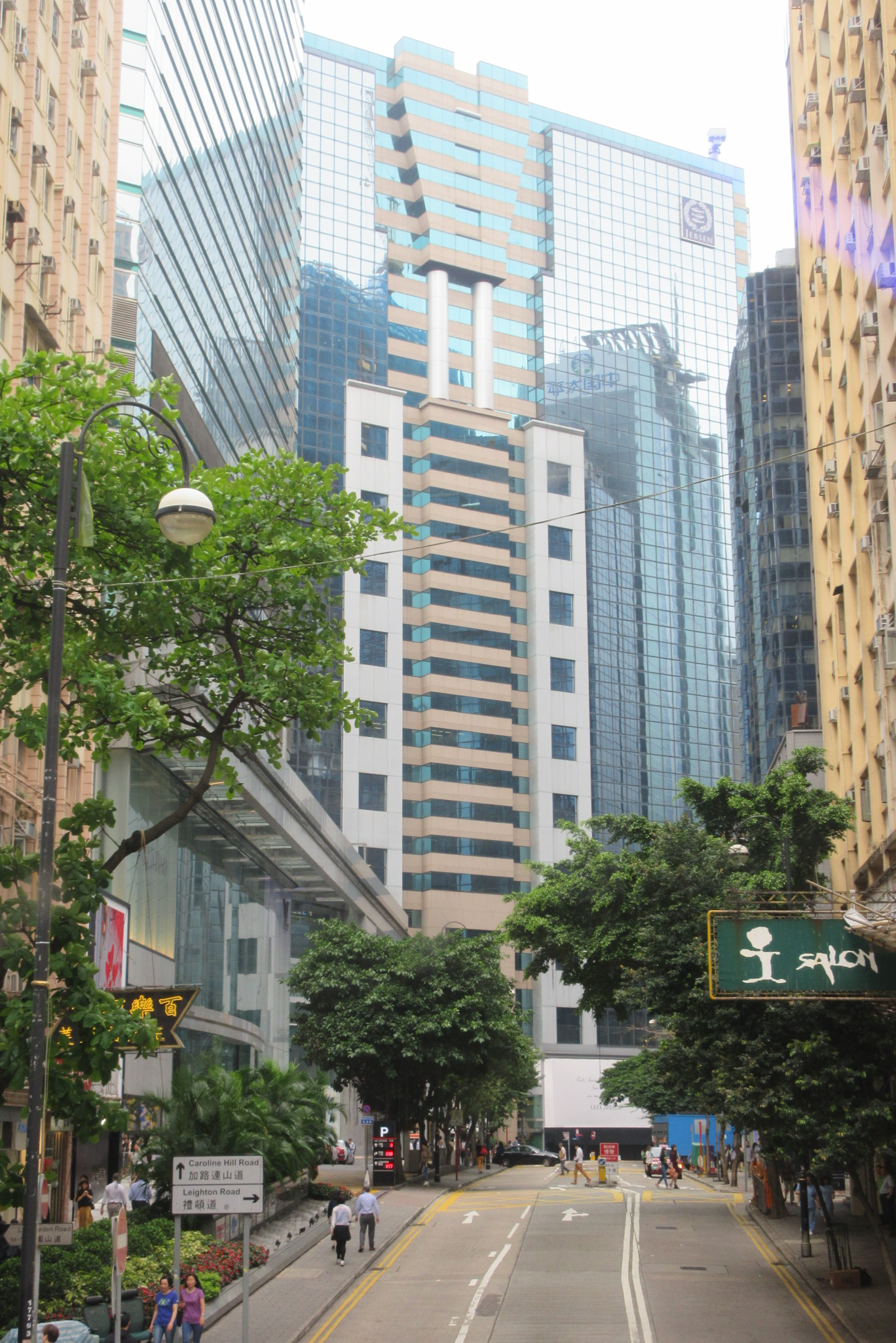 中文（香港）: HK CWB 銅鑼灣 Causeway Bay LEE GARDEN Two in April 2017